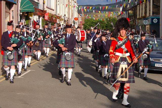 The Isle of Skye Pipe Band Festival On the first evening of the 2007 festival, the Isle of Skye & Portree High School Pipe Band leads the way along Wentworth Street in Portree towards the assembly point in Somerled Square.